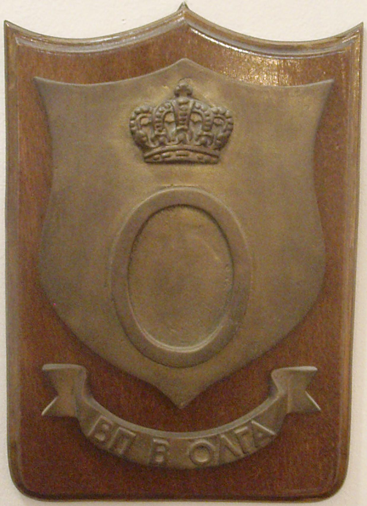 The emblem of the World War II-era Greek destroyer RHN Vasilissa Olga. From the Chania Naval Museum.